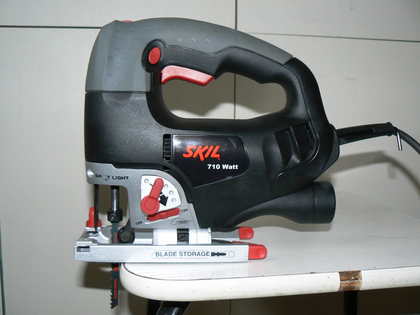 Skil 4585 Jigsaw